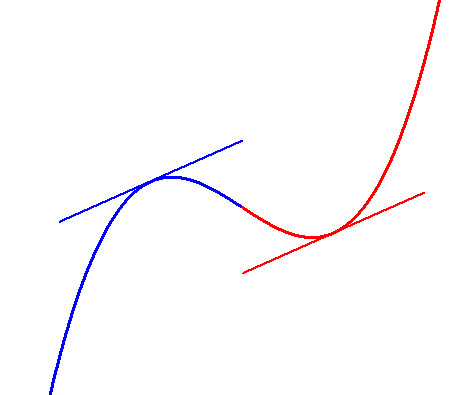 Sketch of polynomial convex function